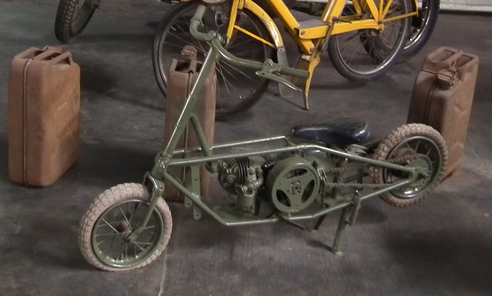 Photo from Sudha Cars Museum in Hyderabad, India